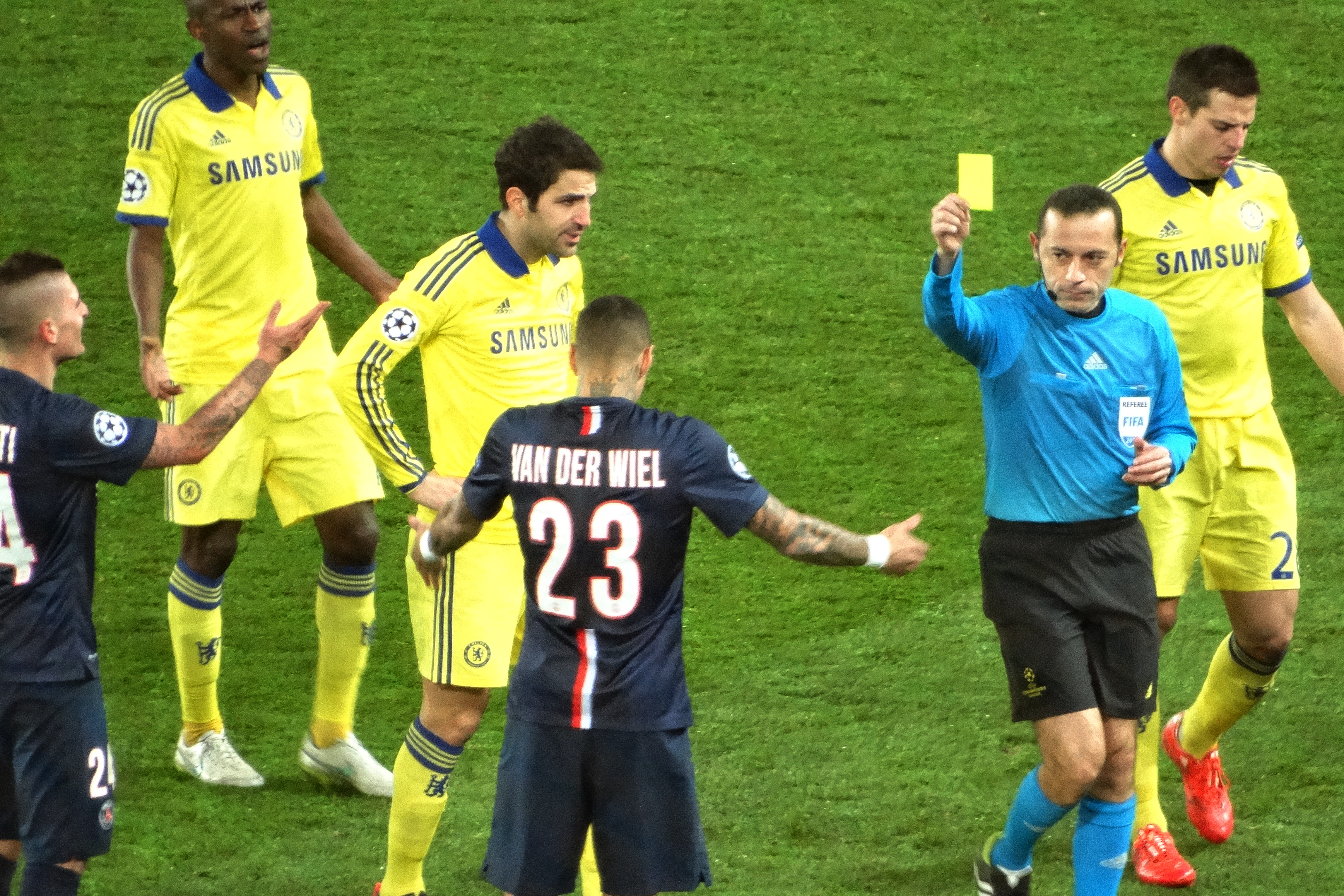 PSG 1 Chelsea 1 Champions League round of 16 1st leg